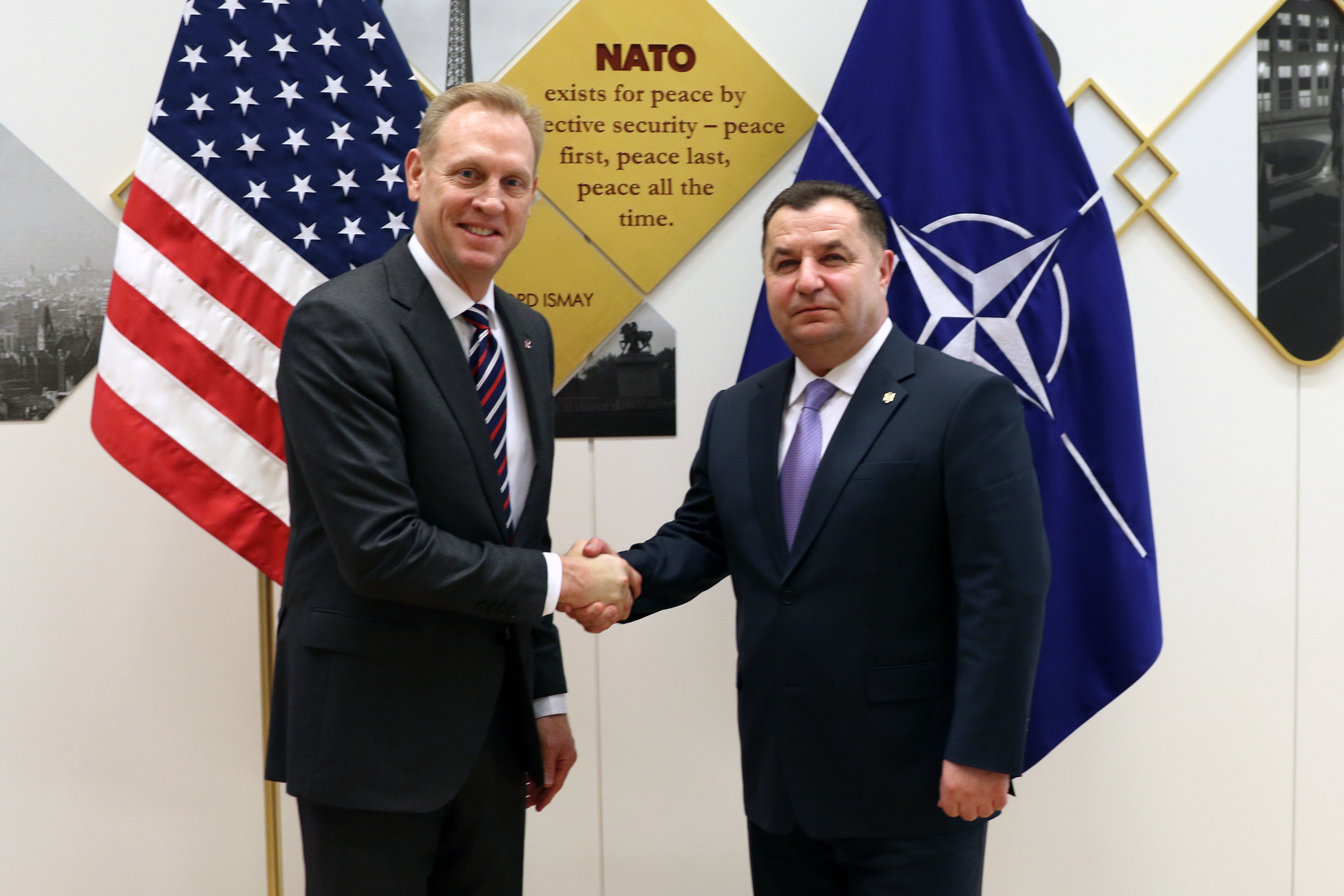 U.S. Acting Secretary of Defense Patrick M. Shanahan meets with Ukrainian Minister of Defense Stepan Poltorak, at the defense ministerial meeting at NATO headquarters, Brussels, Belgium, Feb. 14, 2019. (U.S. Mission to NATO photo by Army Sgt. 1st Class Clinton M. Carroll)